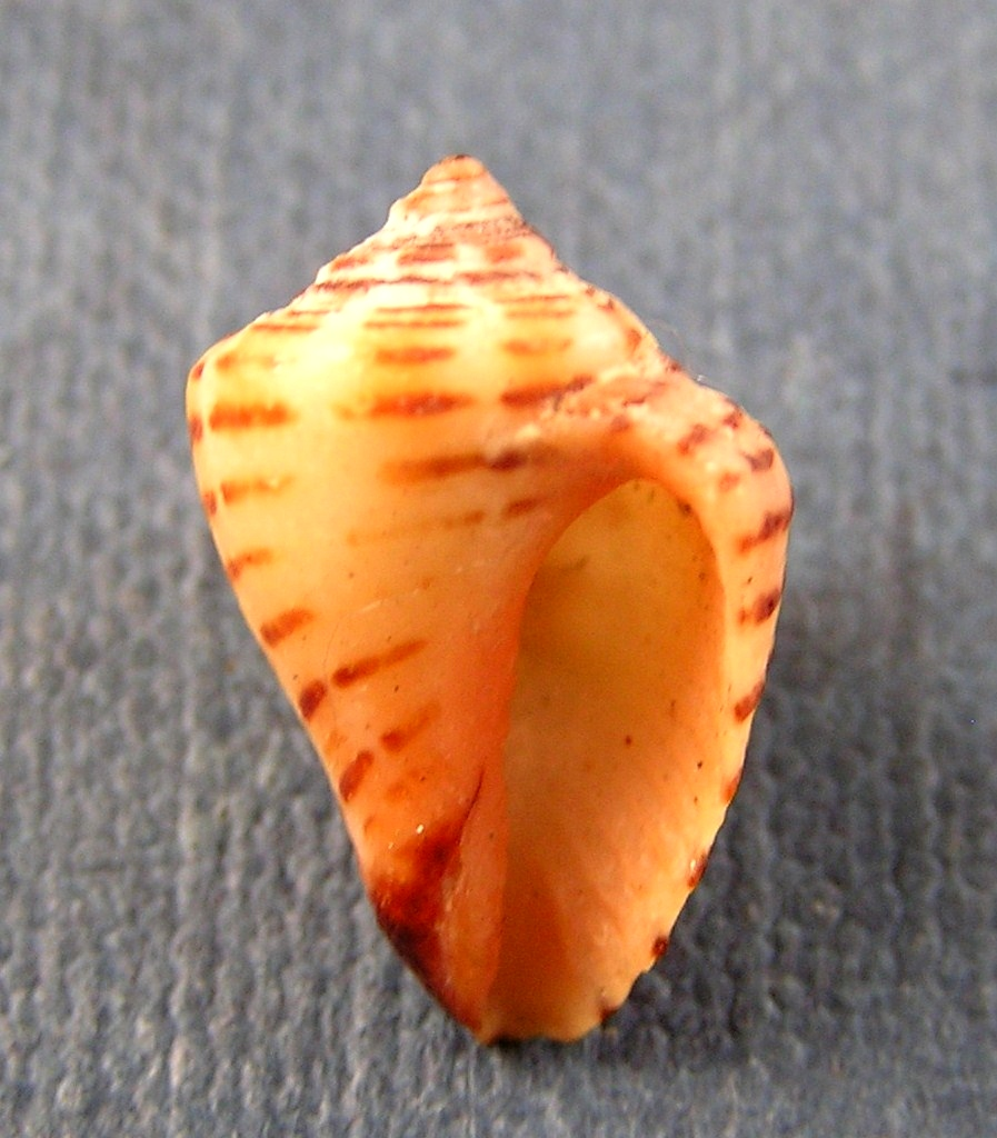 Pinaxia versicolor Gray, 1839, a murex snail from the family Muricidae; Philippines